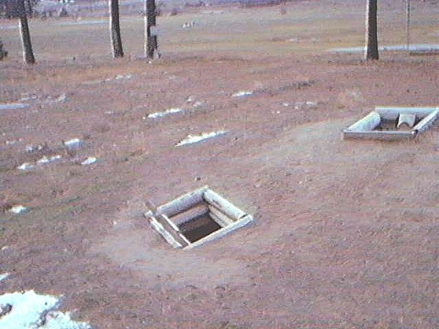 Quiggly hole, or Si7xten, in Lillooet, 1996